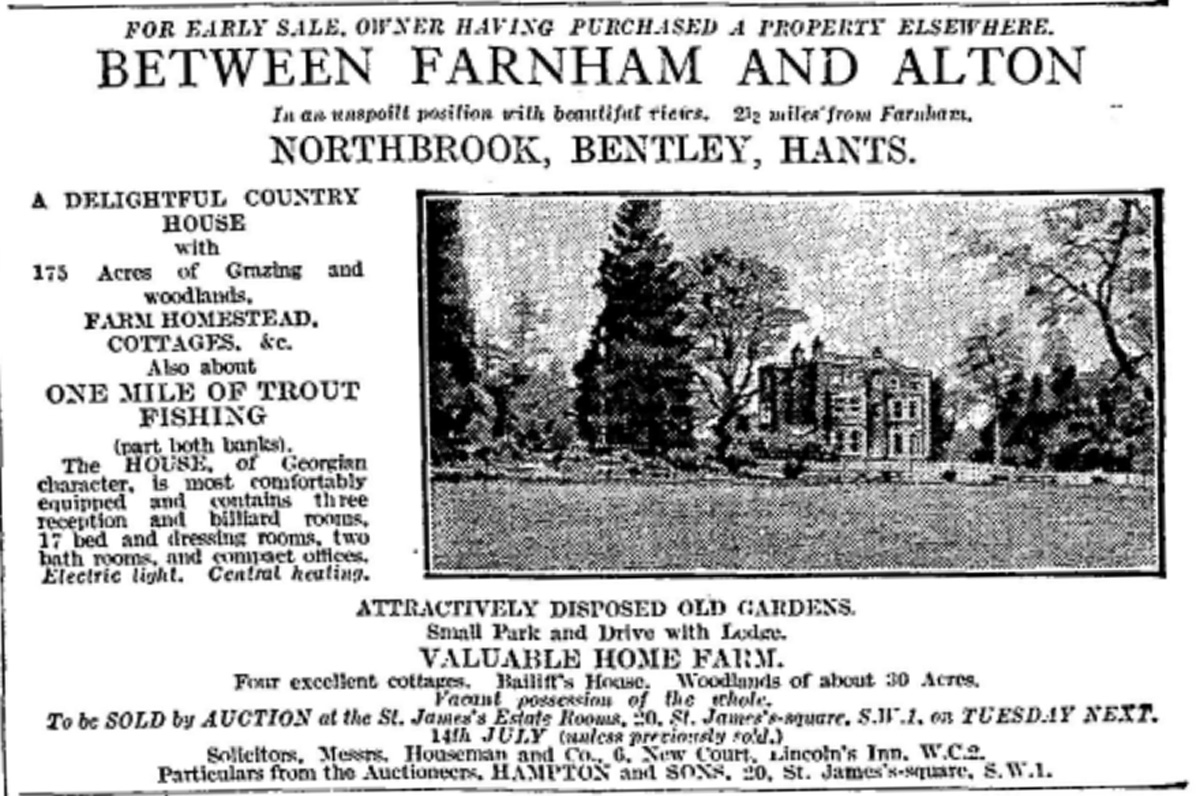 Sale notice for Northbrook Park, Farnham, Surrey, 1931